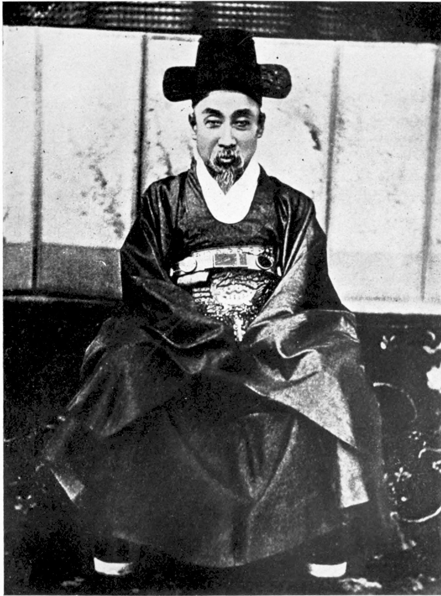 The late Regent, Prince Tai-Wun_crop.jpg; p.155. The passing of Korea (book)